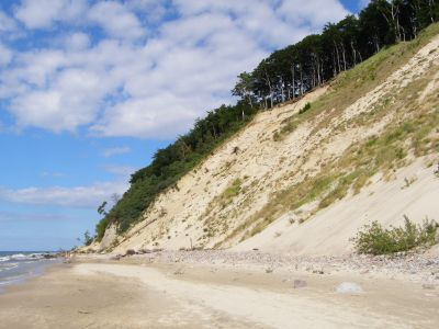 A cliff in the Wolin National Park, Poland